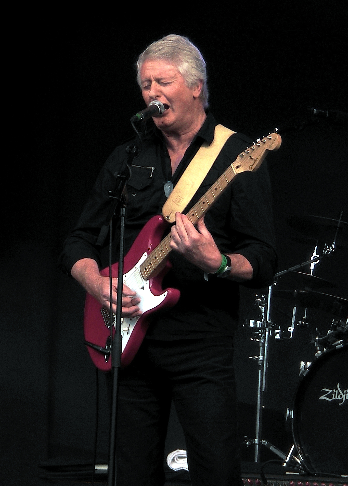 Pye Hastings giving performance at High Voltage Festival 2011r.